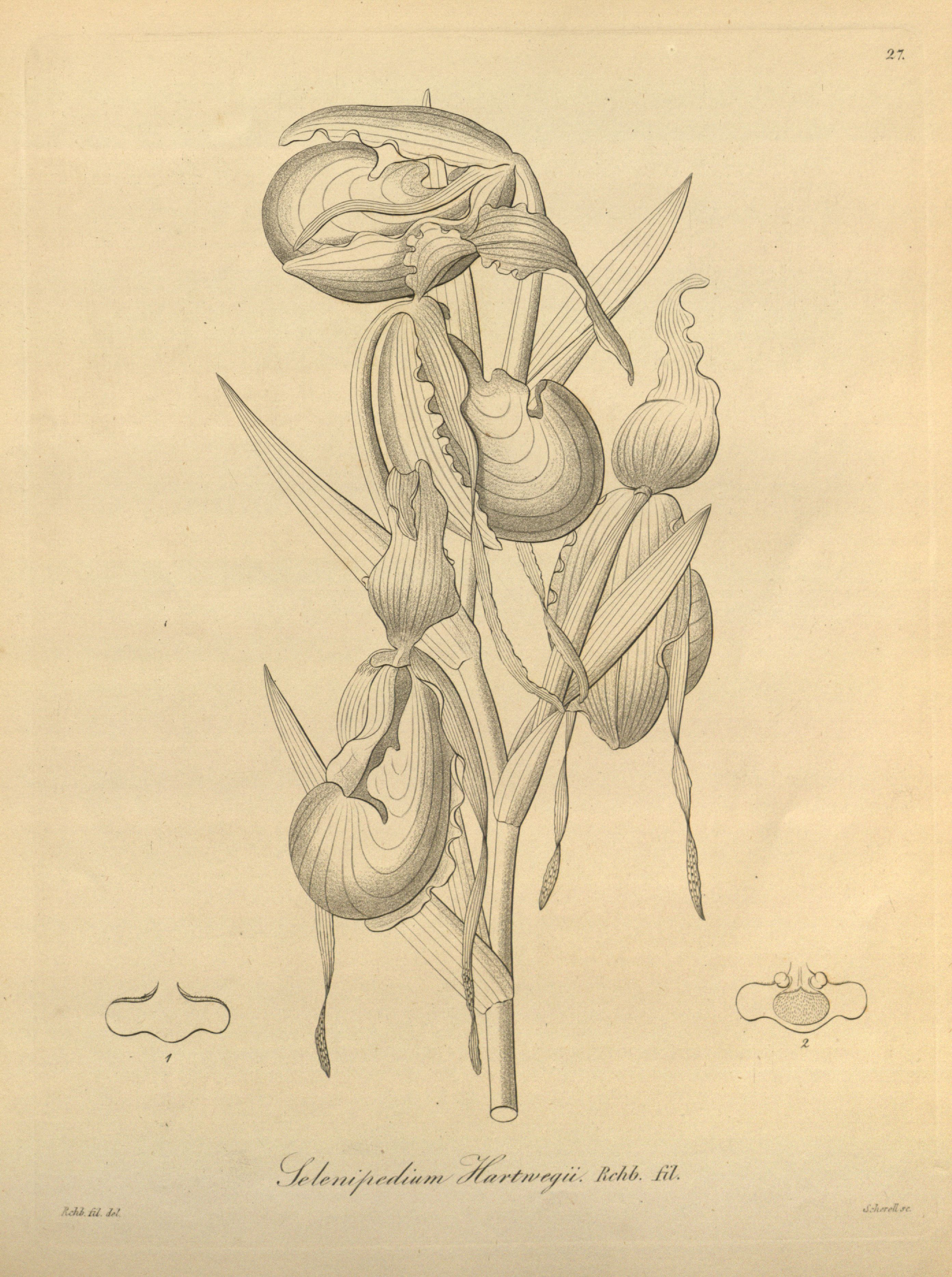 Illustration of Phragmipedium hartwegii (as syn. Selenipedium hartwegii)